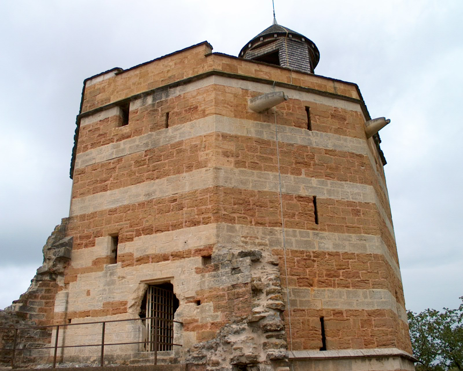 The octagonal tower of Trevoux castle - Ain - France